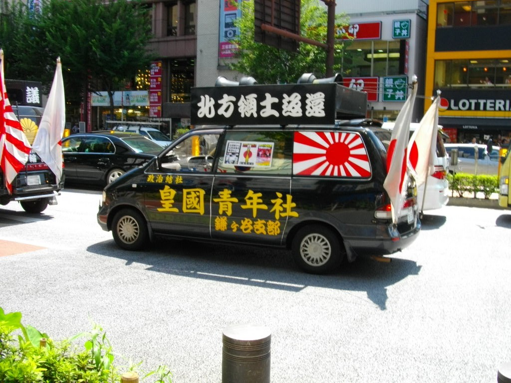 Kokoku Seinen-Sha(Imperial State Youth Association) Gaisensha